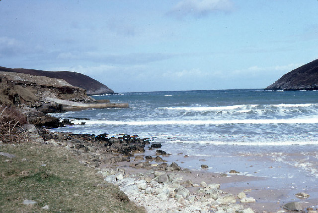 Portacloy.